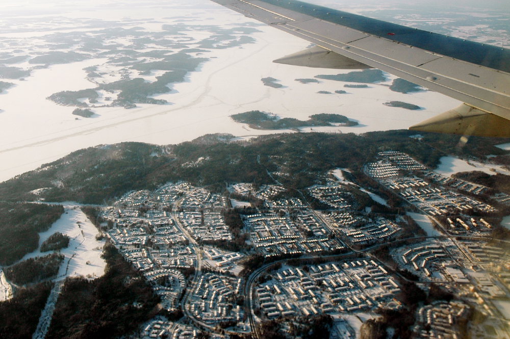 A north-western residential suburb of Stockholm called Viksjö. Photograph by Henryk Kotowski in February 2007.